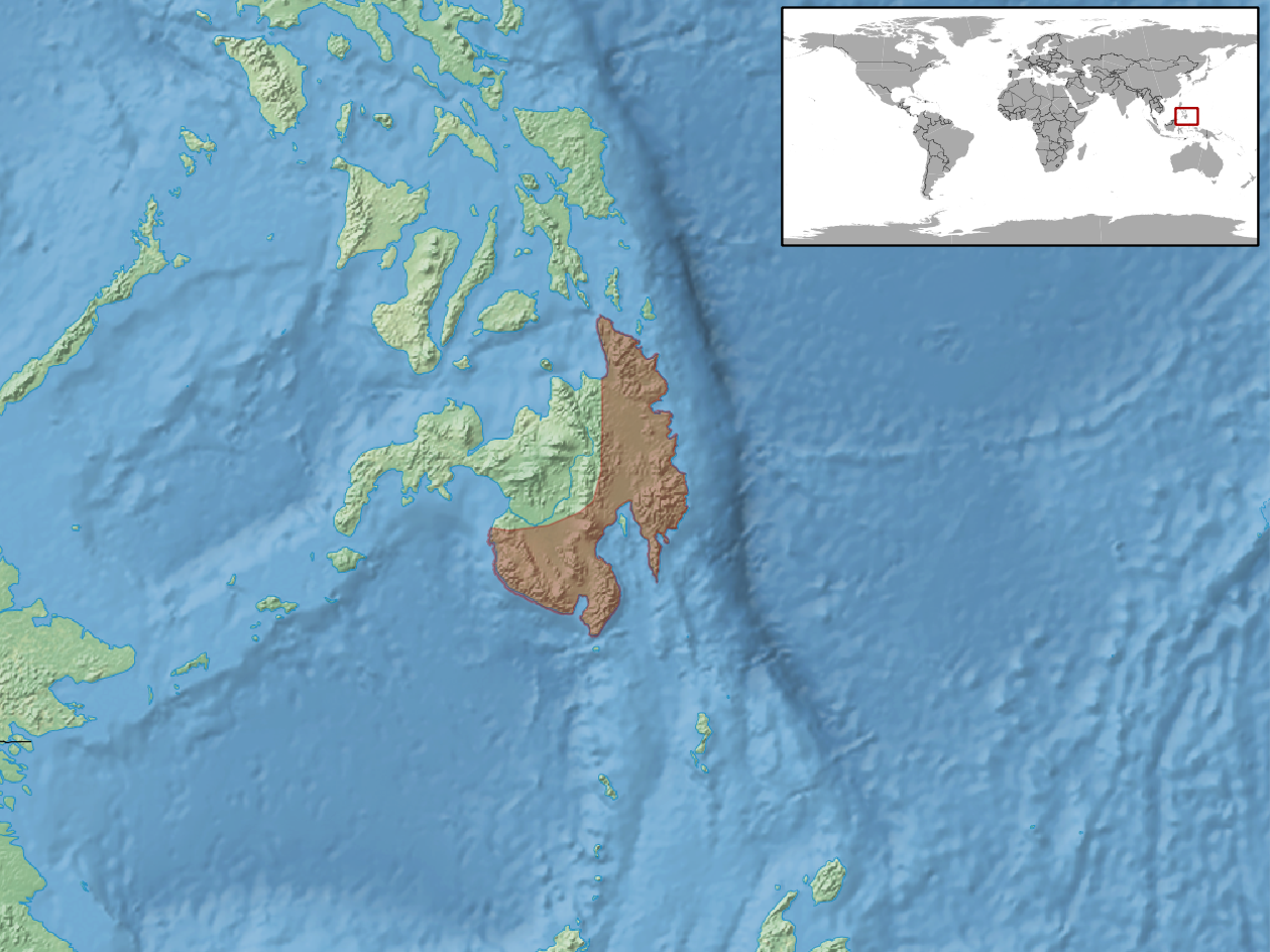 geographic distribution of Tropidophorus davaoensis